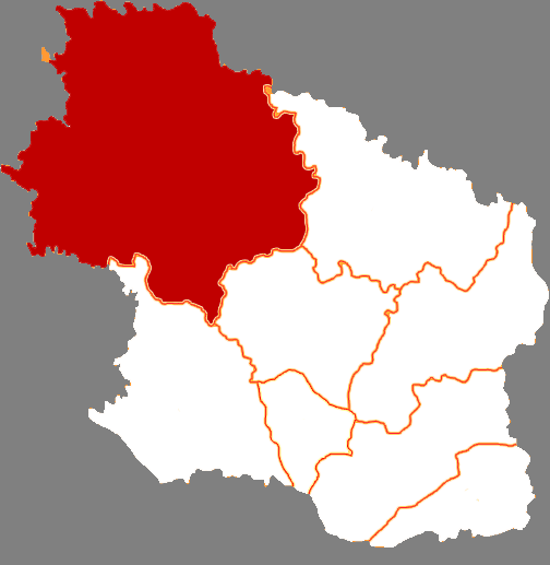 Location of Huan county in Qingyang city, China